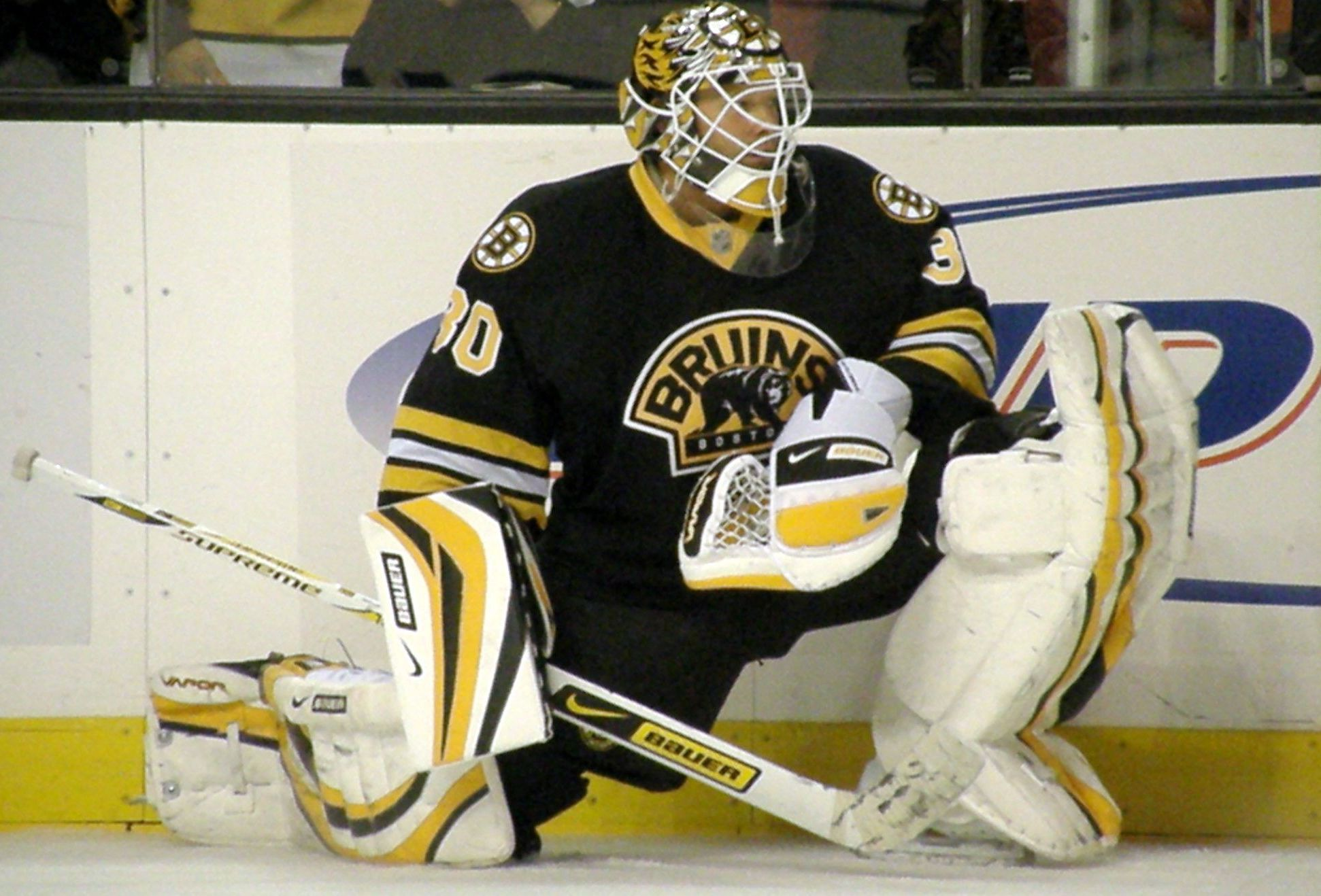 Tim Thomas stretching before a game on November 28, 2008